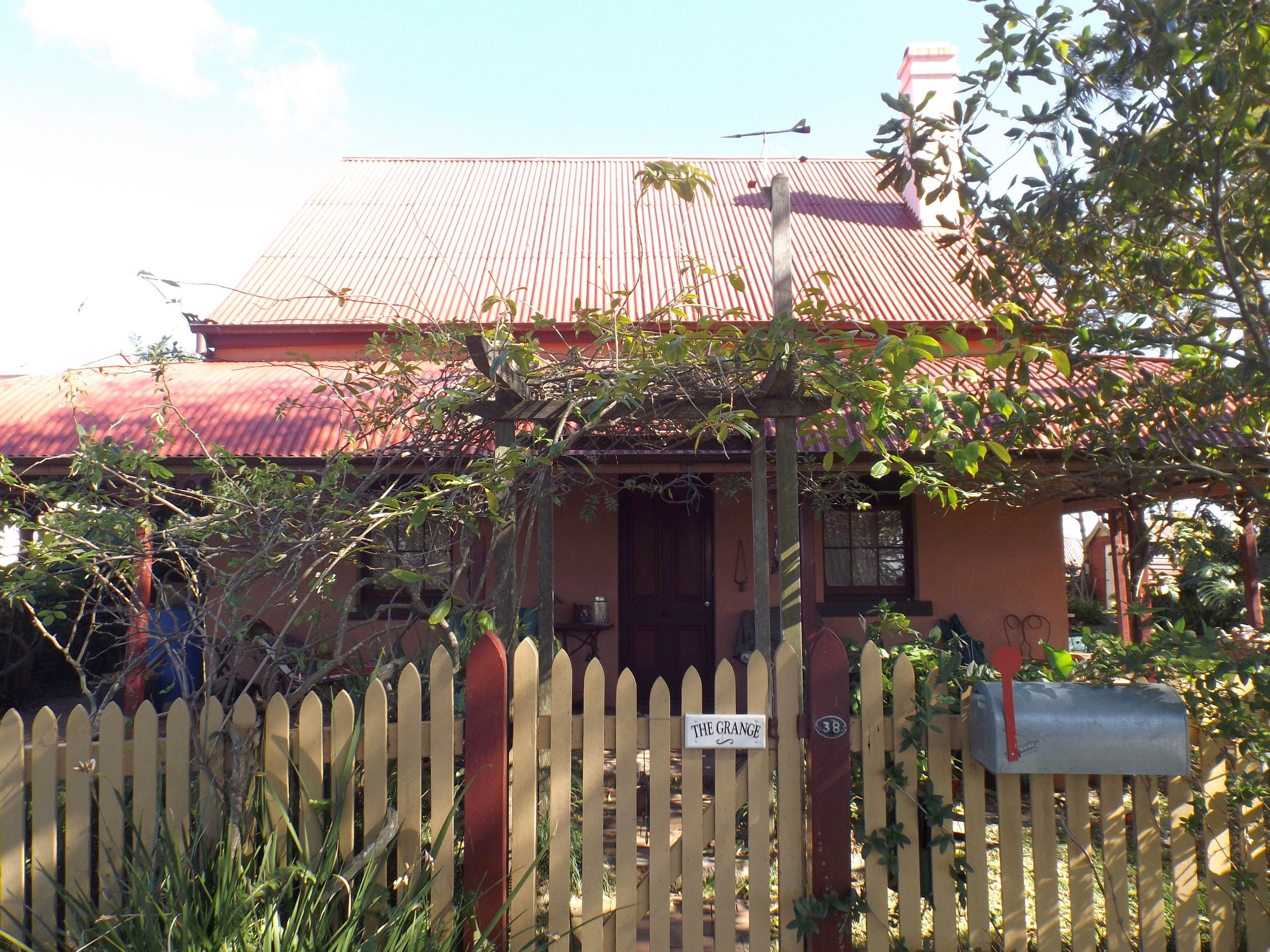 Photo of the Grange residence at Windsor, Brisbane, Queensland, Australia.